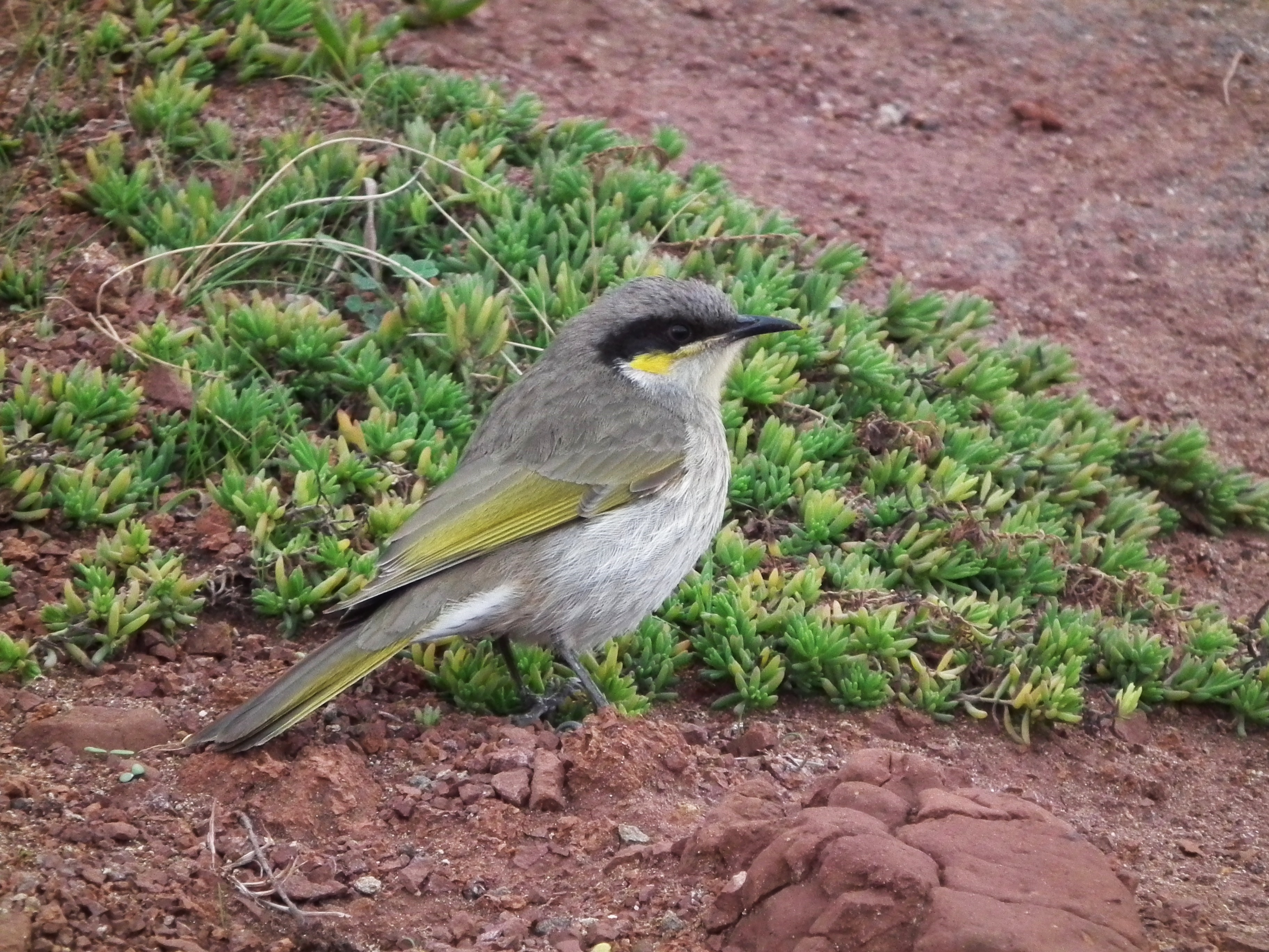 A Singing Honeyeater in Cape Schanck, Melbourne, Victoria, Australia.